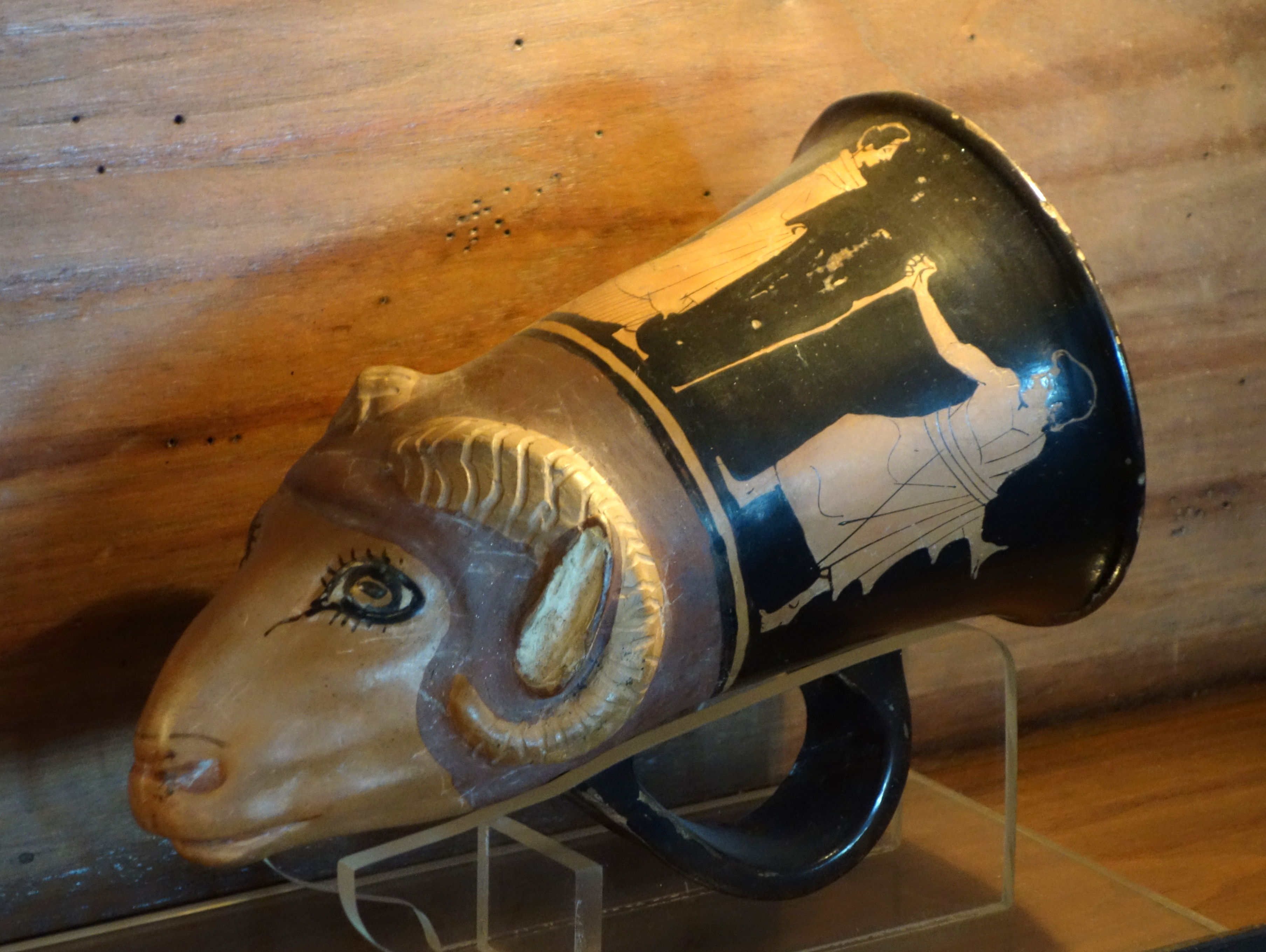 Interior view of the main library at the Casa Grande, Hearst Castle, San Simeon, California, USA. Photograph was permitted without restriction in and around the castle. All artwork is old enough so that it is in the public domain.